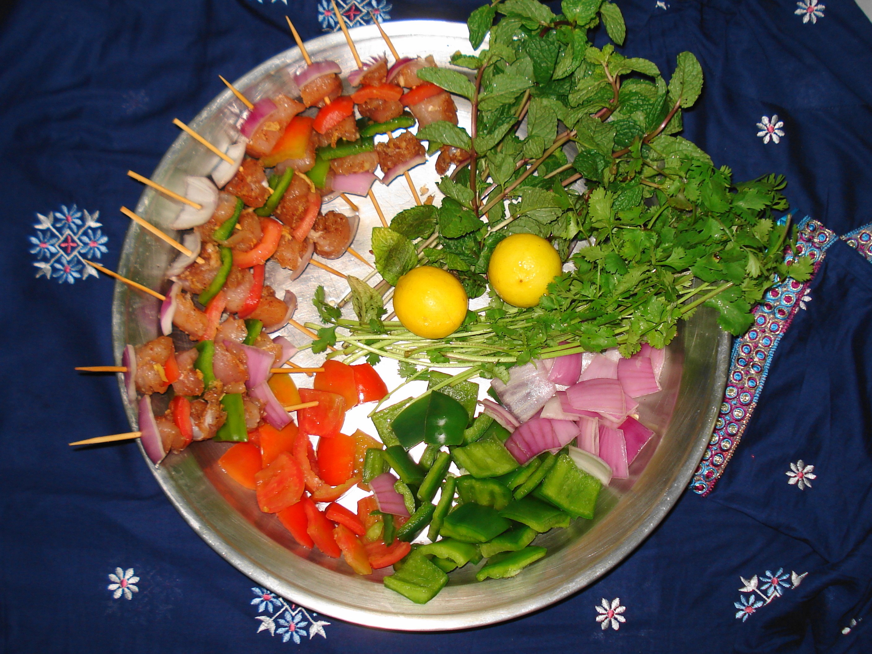 Shashlik